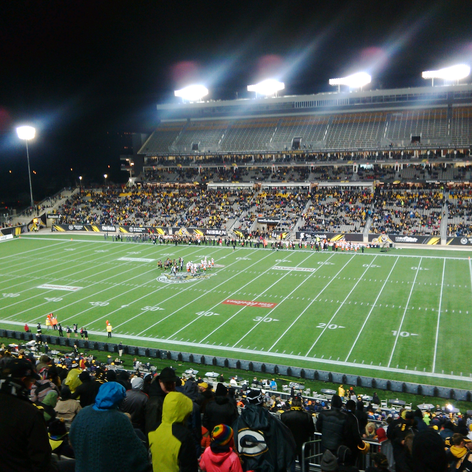 The BC Lions play the Hamilton Tiger-Cats in the fourth ever game at Tim Hortons Field. The upper stands on one side of the stadium were not yet complete at this point.